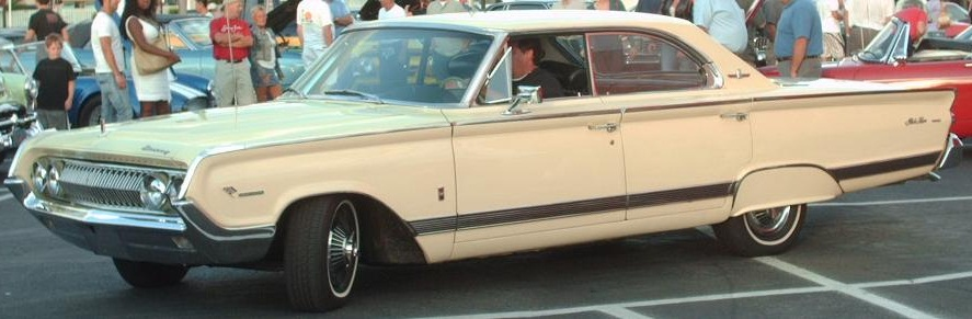 1964 Mercury Park Lane photographed in Montreal, Quebec, Canada at Gibeau Orange Julep.